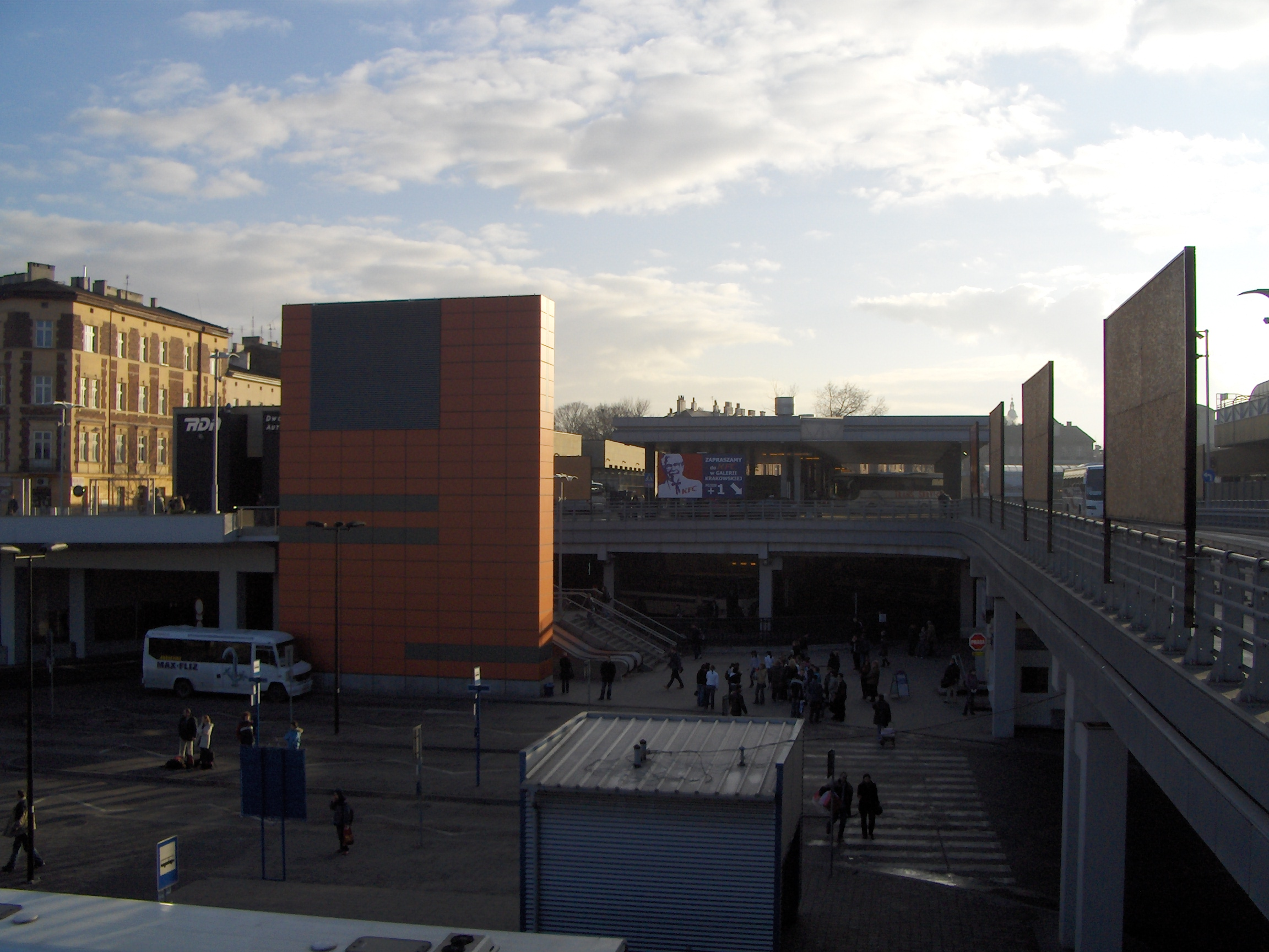 Mercedes-Benz T2 or Mercedes-Benz Vario bus in Kraków, Poland.